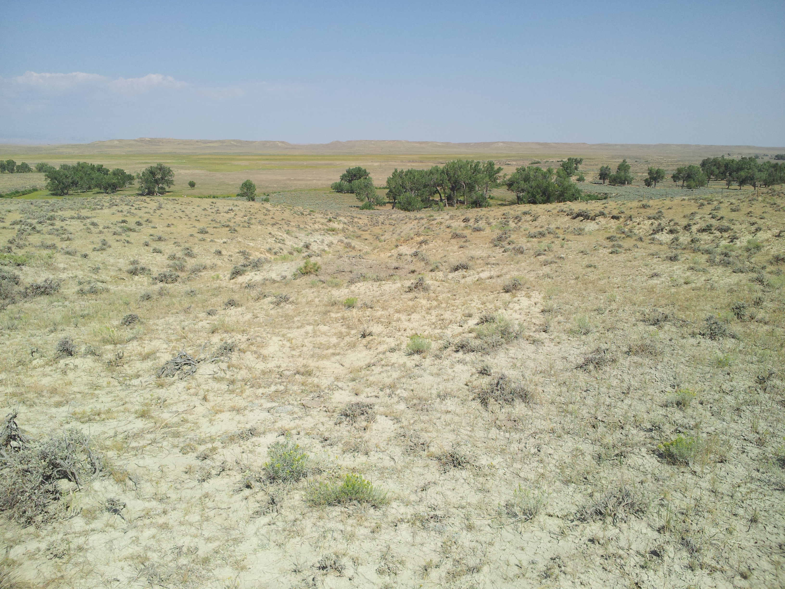 This is a view of the crossing over the Bozeman Trail on Crazy Woman Creek near Buffalo, Wyoming